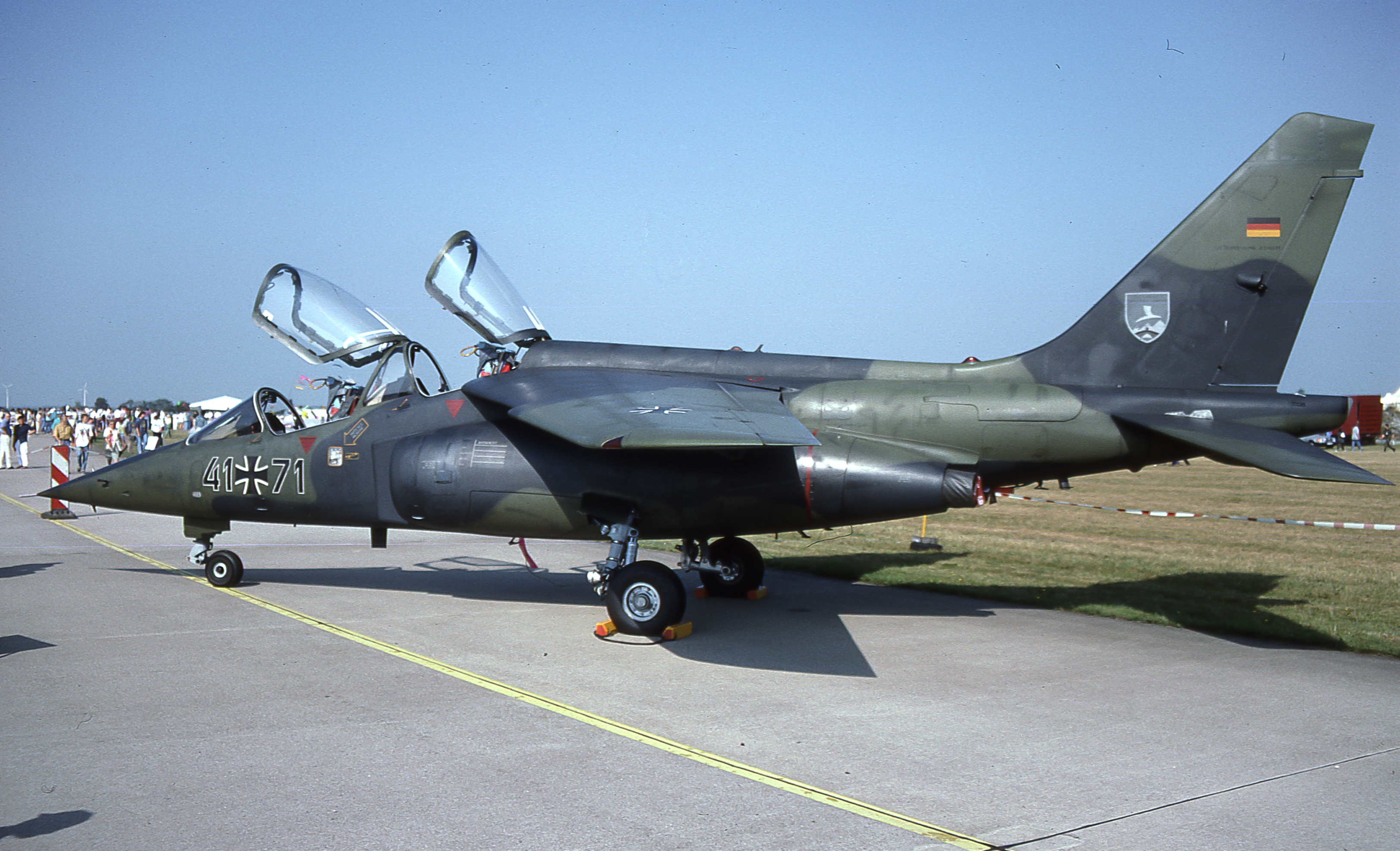 Taken at Eggebeck Airshow in 1996